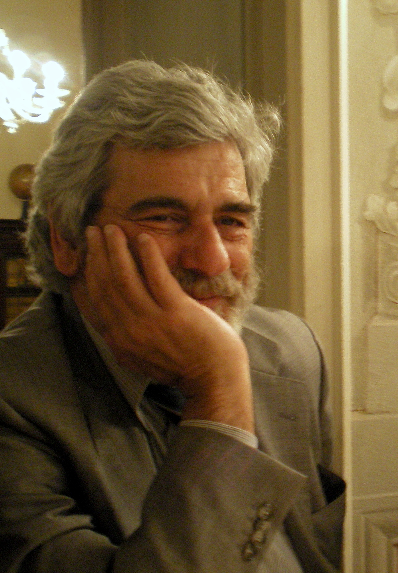 Alessandro Lami on June 14th 2008